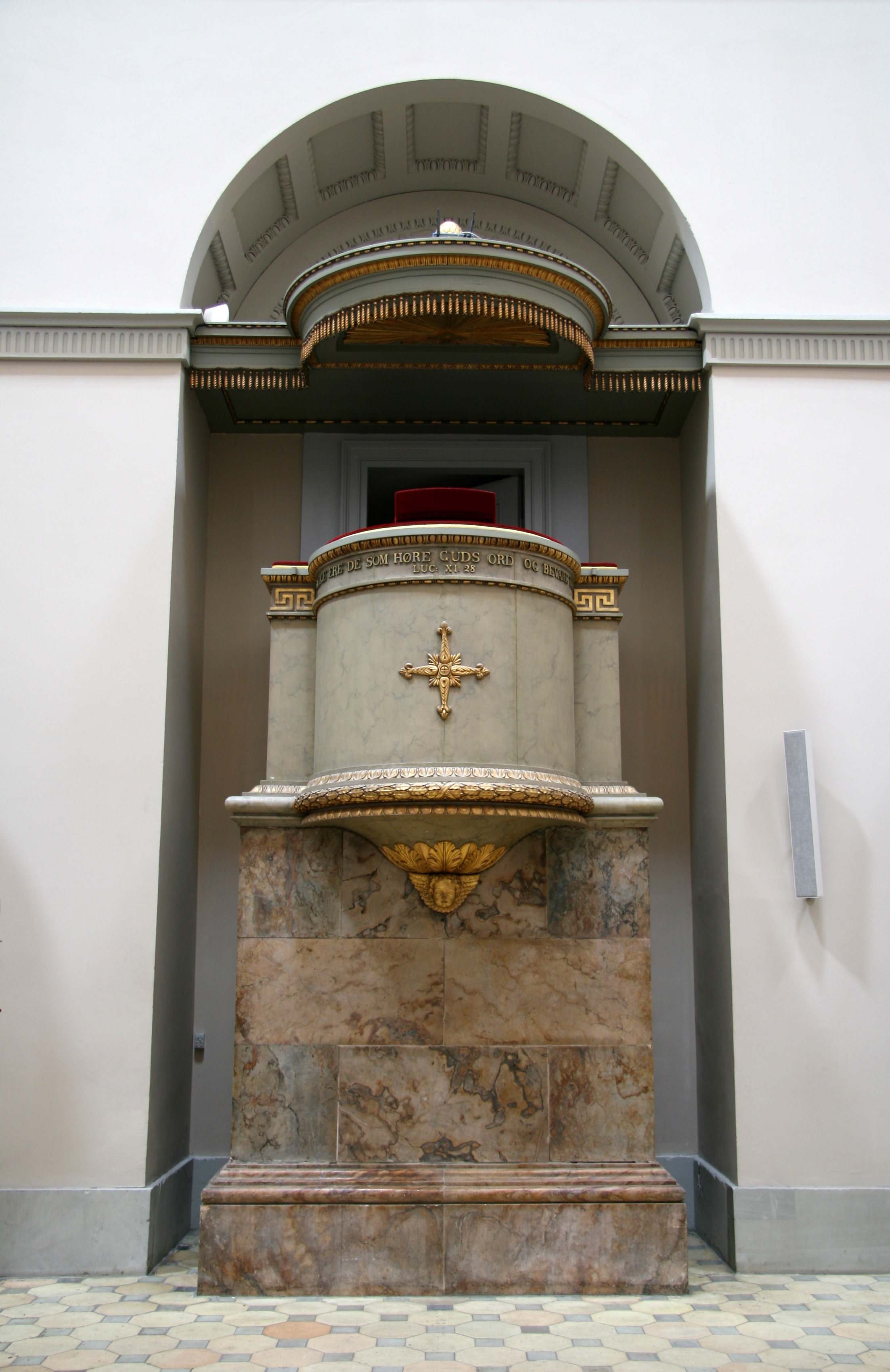 Vor Frue Kirke in Copenhagen, Denmark. The cathedral of Copenhagen. Pulpit.